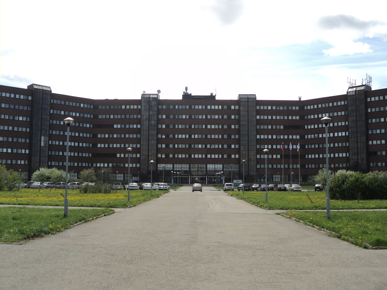 Administrative building of Technical Center "AVTOVAZ". (Architecture of the Soviet Union 1987-1994 ). Development and creation of new models and design cars.